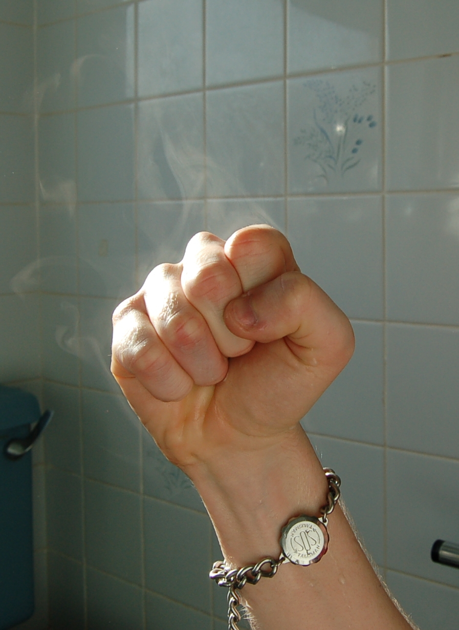 A fist